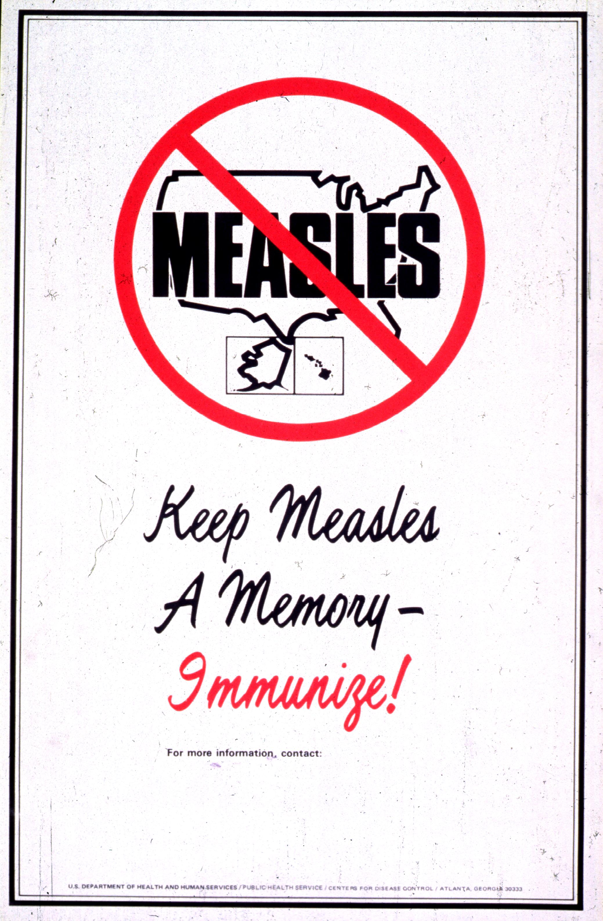 Contributor(s): Centers for Disease Control (U.S.) Publication: Atlanta, Ga. : Centers for Disease Control, [19--] Language(s): English Format: Still image Subject(s): Measles -- prevention & control Measles Vaccine -- administration & dosage Immunization Genre(s): Posters Abstract: White poster with black and red lettering. Upper portion of poster features an outline of the U.S., with Alaska and Hawaii in separate boxes positioned below Texas. "Measles" is superimposed on the 48 contiguous States, and then a red "do not" sign is superimposed on the complete design. Title appears below visual image. Publisher information at bottom of poster. Extent: 1 photomechanical print (poster) : 44 x 28 cm. Technique: color NLM Unique ID: 101438329 NLM Image ID: A025911 Permanent Link